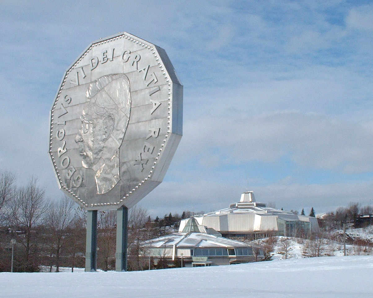 The Big Nickel in January 2002 at its temporary location near Science North.